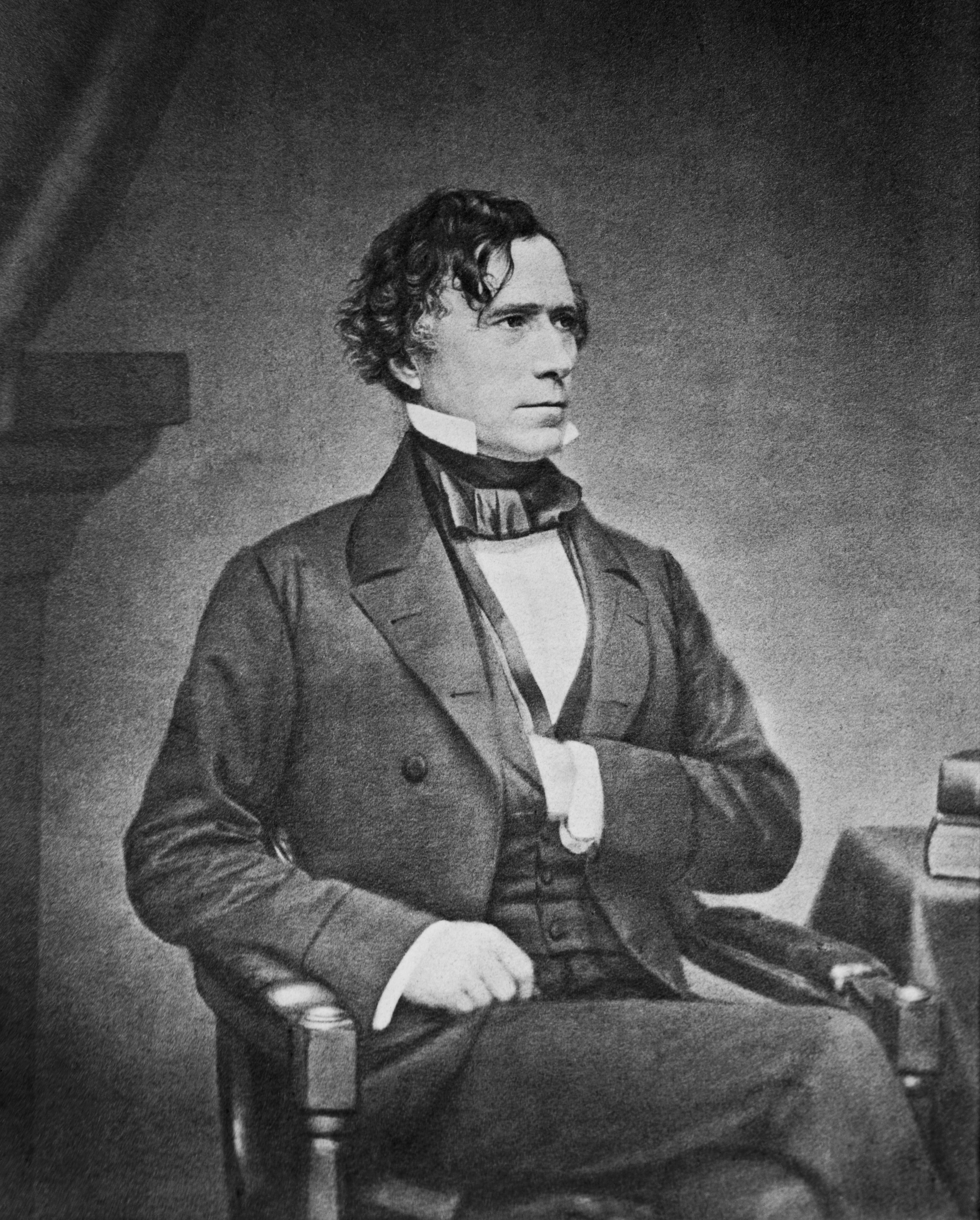 Portrait of Franklin Pierce (1804–1869) by Mathew Brady. The LoC describes this as "Copy neg. from original ink by Brady after Daguerreotype".